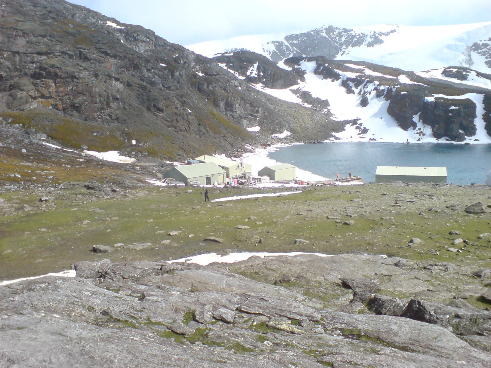 Factory Cove with Signy Research Station, Signy Island, South Orkney Islands